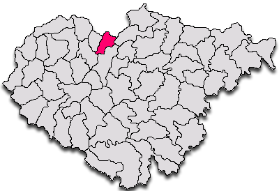 Map Salaj County Romania